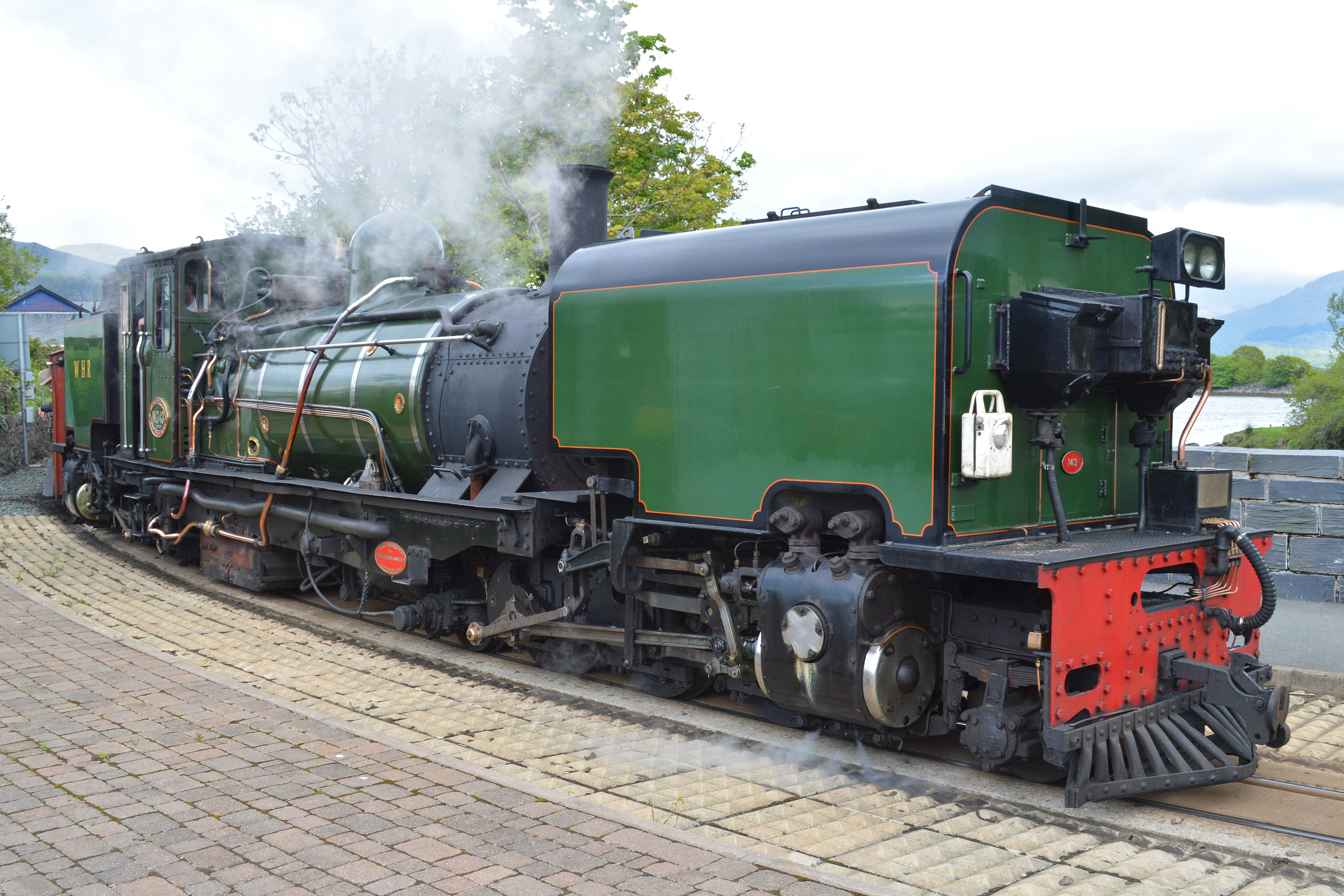 No143 is seen entering Portmadoc. She is about to enter the link to the FR station, requiring a short journey along a public road. 29-5-2013